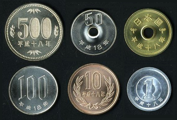 Japanese coin (硬貨)